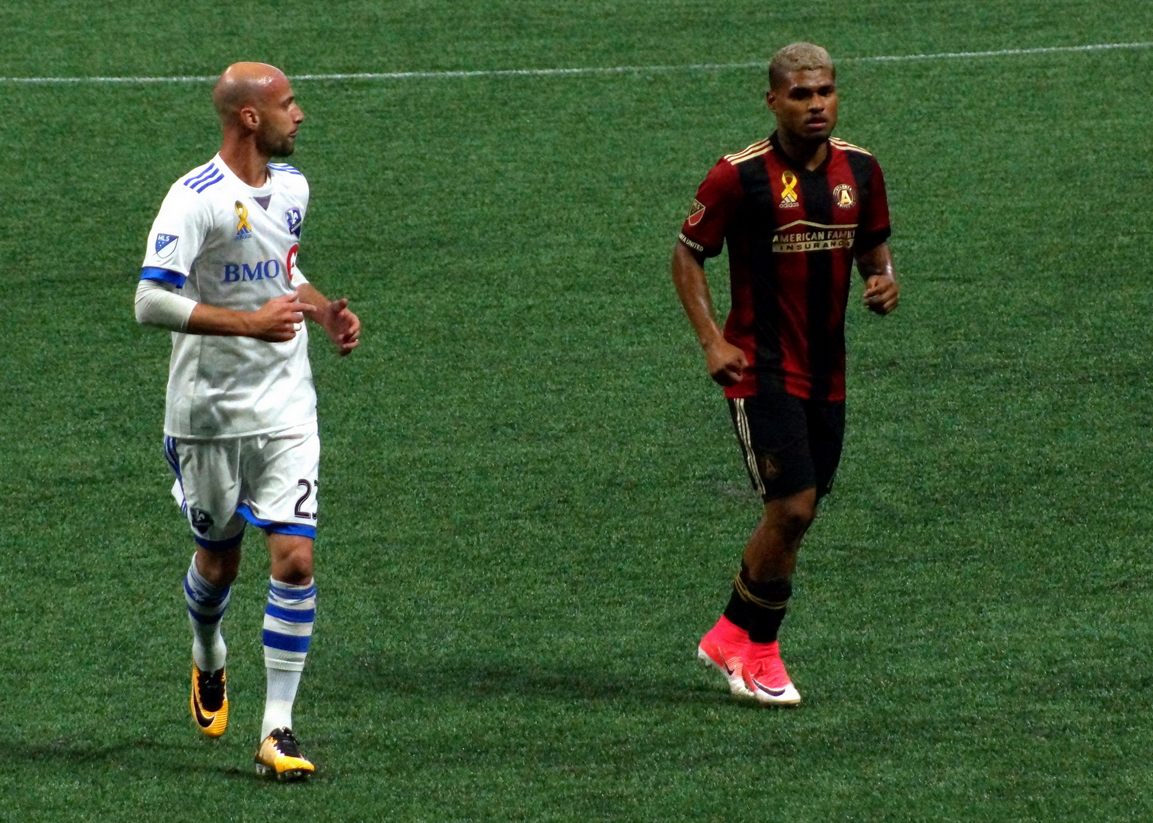 Josef Martínez playing for Atlanta United on September 24, 2017 against the Montreal Impact